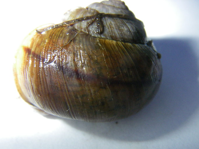 Noyo intersessa from Mendocino Co., CA, USACebuano: Noyo intersessa